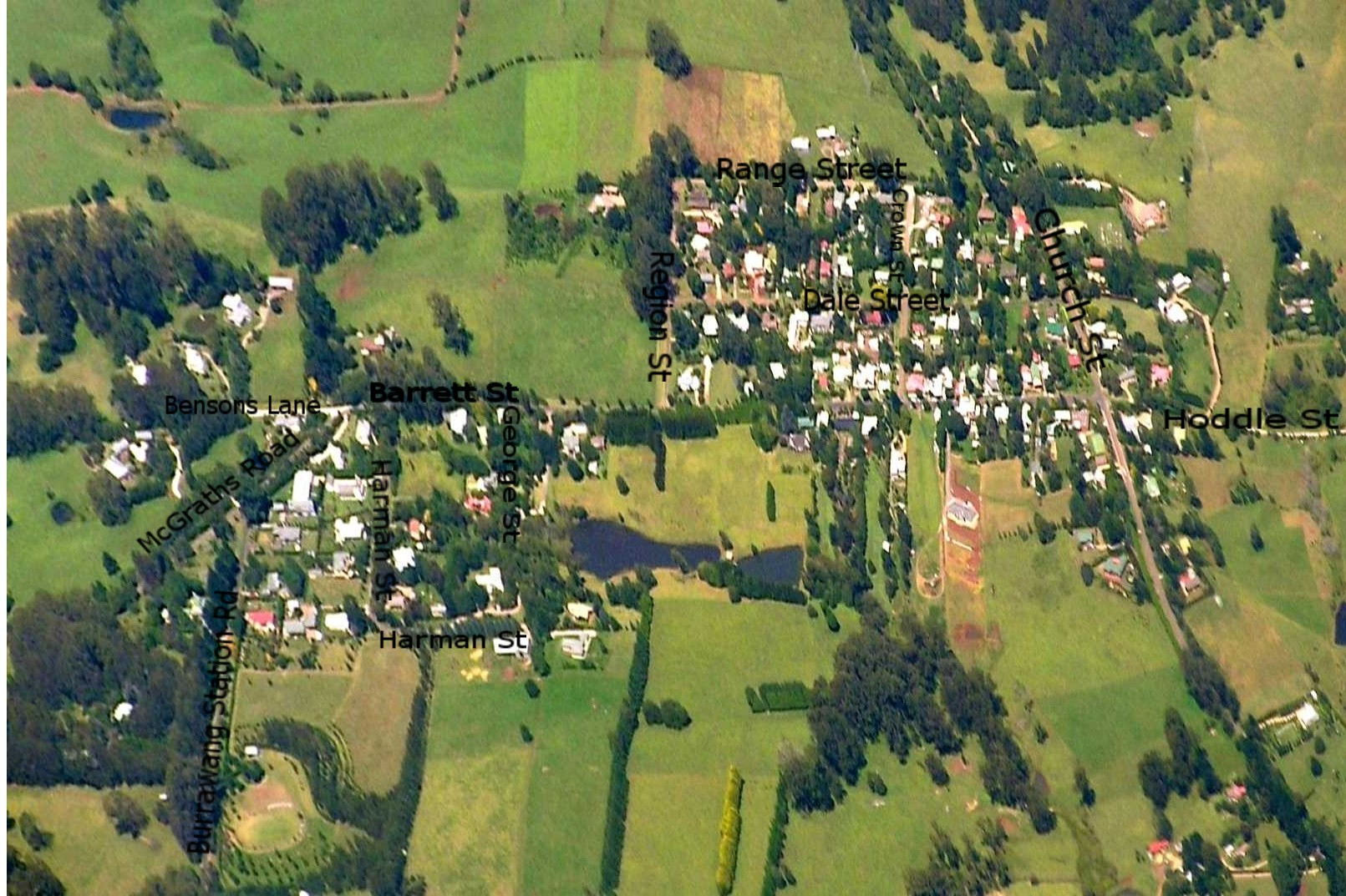 Map of Burrawang - aerial photo with names of streets